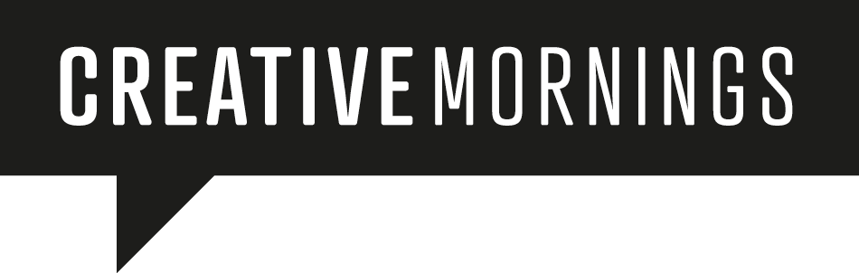 CreativeMornings Event Global Logo